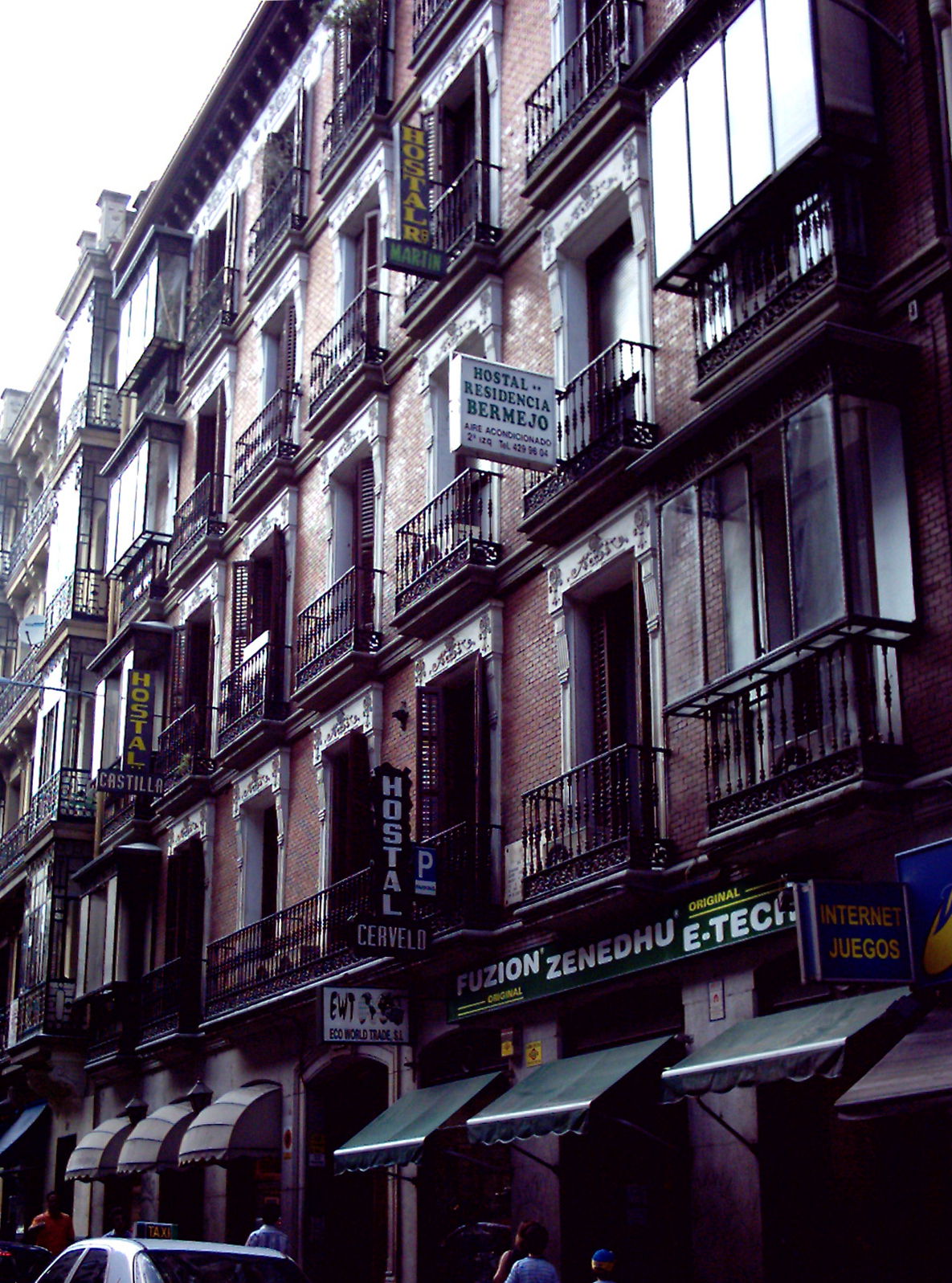 Viviendas en la Calle Atocha, Madrid Housing in the Atocha Street, Madrid